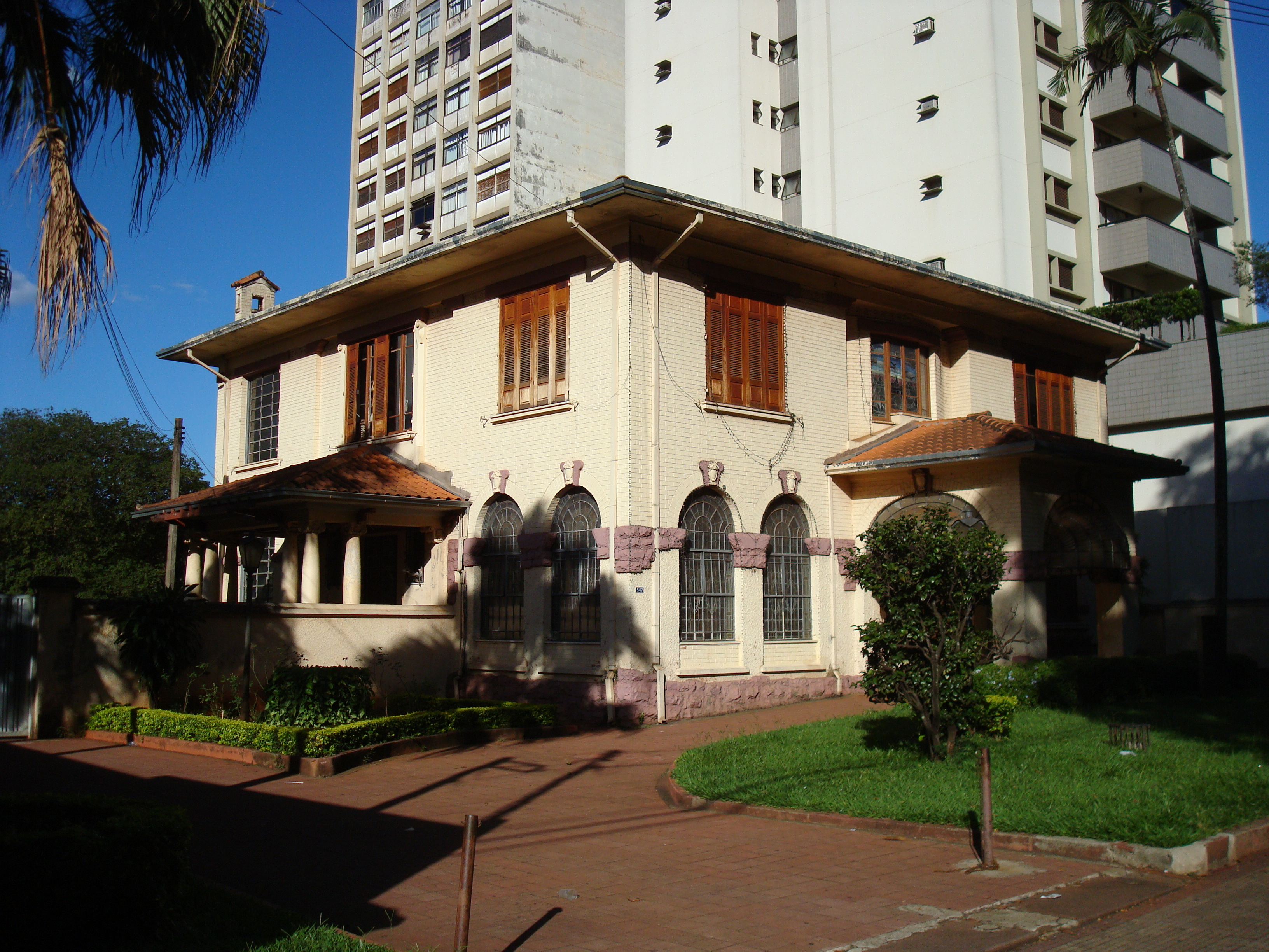 Altino Arantes Bibliotec